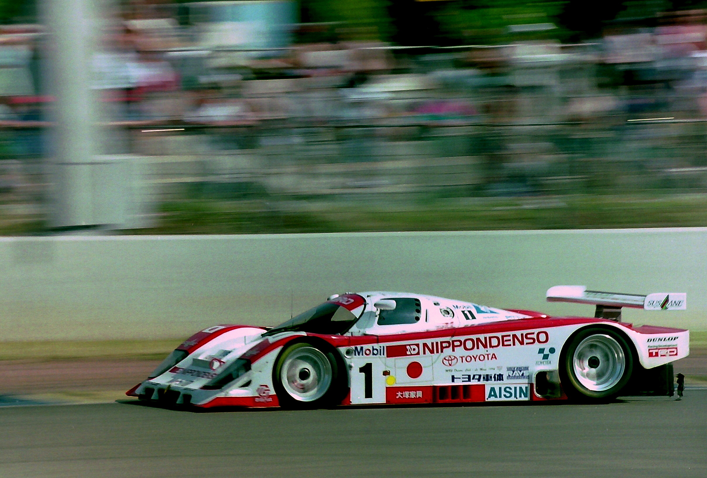 Toyota 94C-V - Mauro Martini, Jeff Krosnoff & Eddie Irvine at the 1994 Le Mans